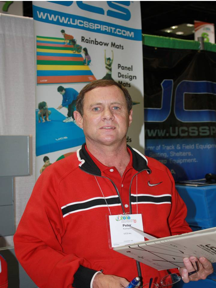 Photograph of American gymnast Peter Kormann